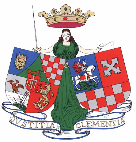 Coat of arms of Bjelovar-Križevci county of Kingdom of Croatia in union with Hungary